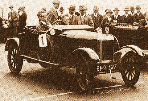 1923 Unit 10 hp